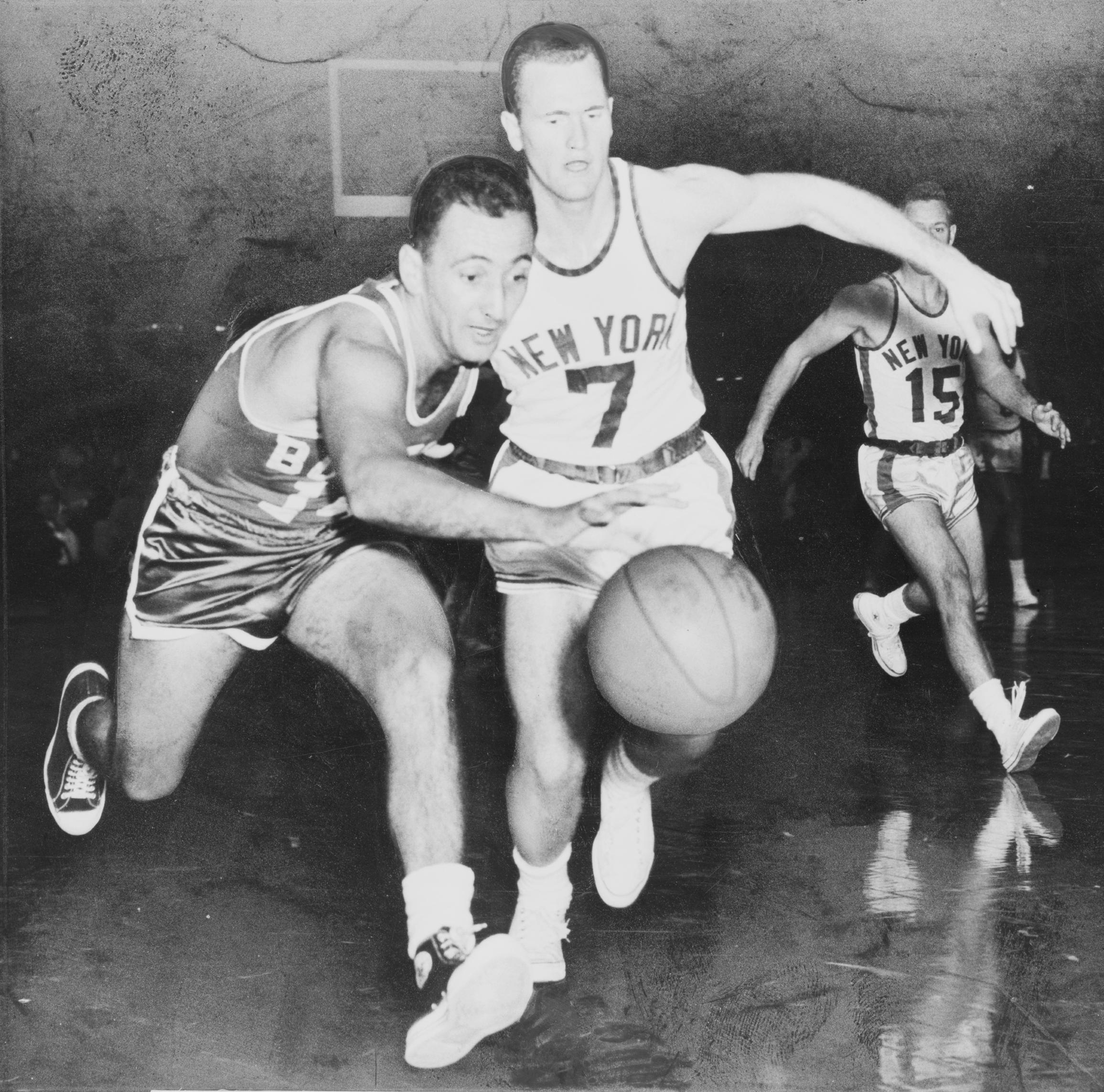 "Life in the old Cousy yet" / World Telegram & Sun photo by Wm. C. Greene.